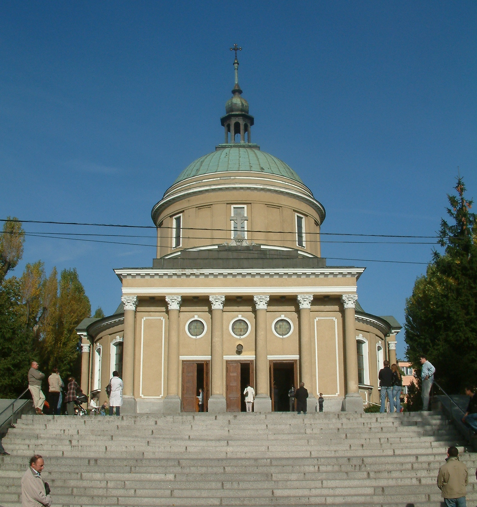 Church of St. John Vianney in Poznań